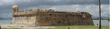 Fortín San Juan de la Cruz, known locally as El Cañuelo at San Juan National Historic Site. U.S. government image from the National Park Service, Department of the Interior.